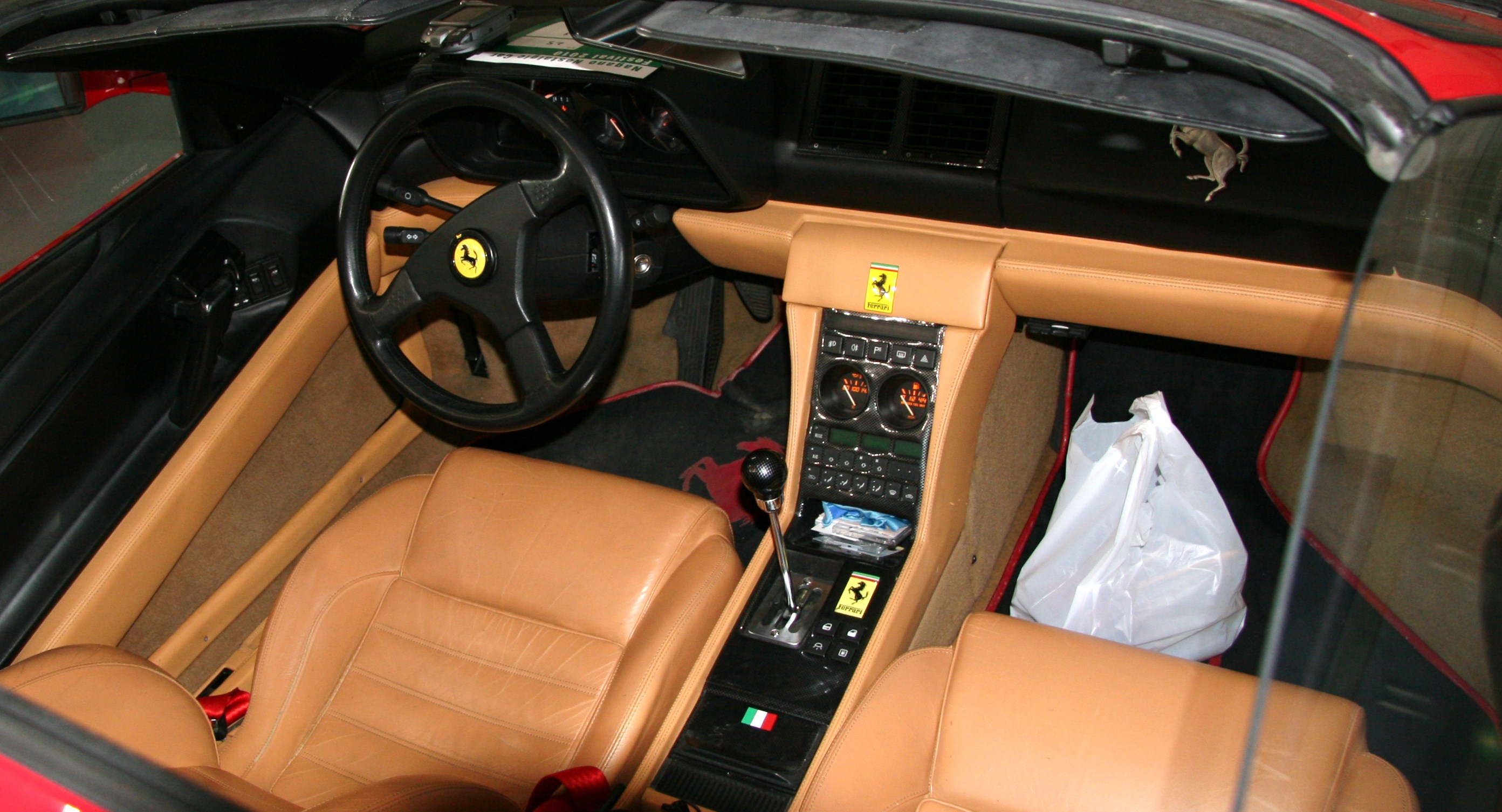 Ferrari 348